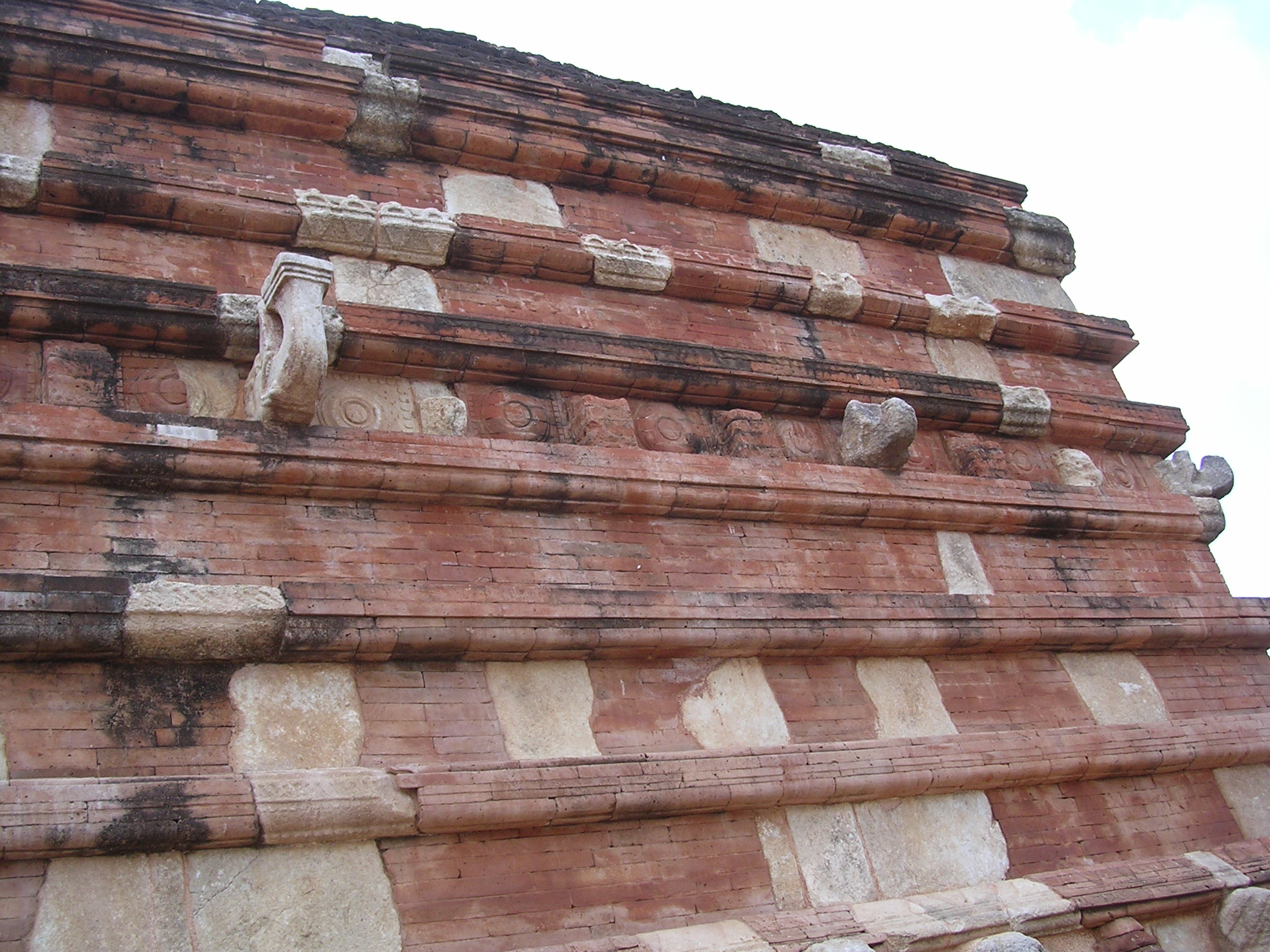 Isura Ranatunga 2004. Jetawana Stupa is situated in Anuradhapura, Sri Lanka. Jetavanaramaya